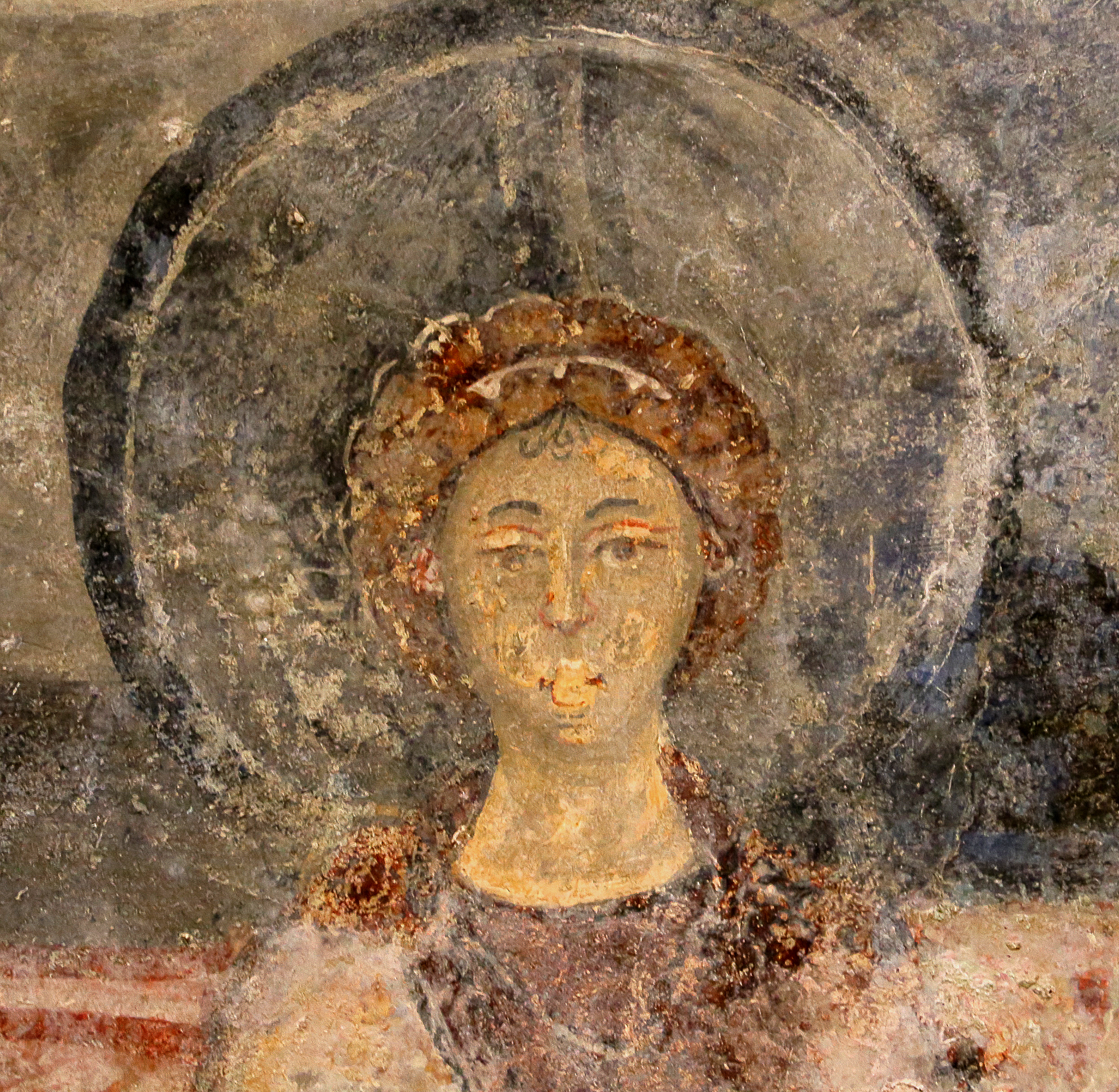 Detail of a fresco at Epifanio Crypt, which has been identified with the Archangel Raphael. Reference: La cripta di Epifanio a S. Vincenzo al Volturno by Franco Valente.